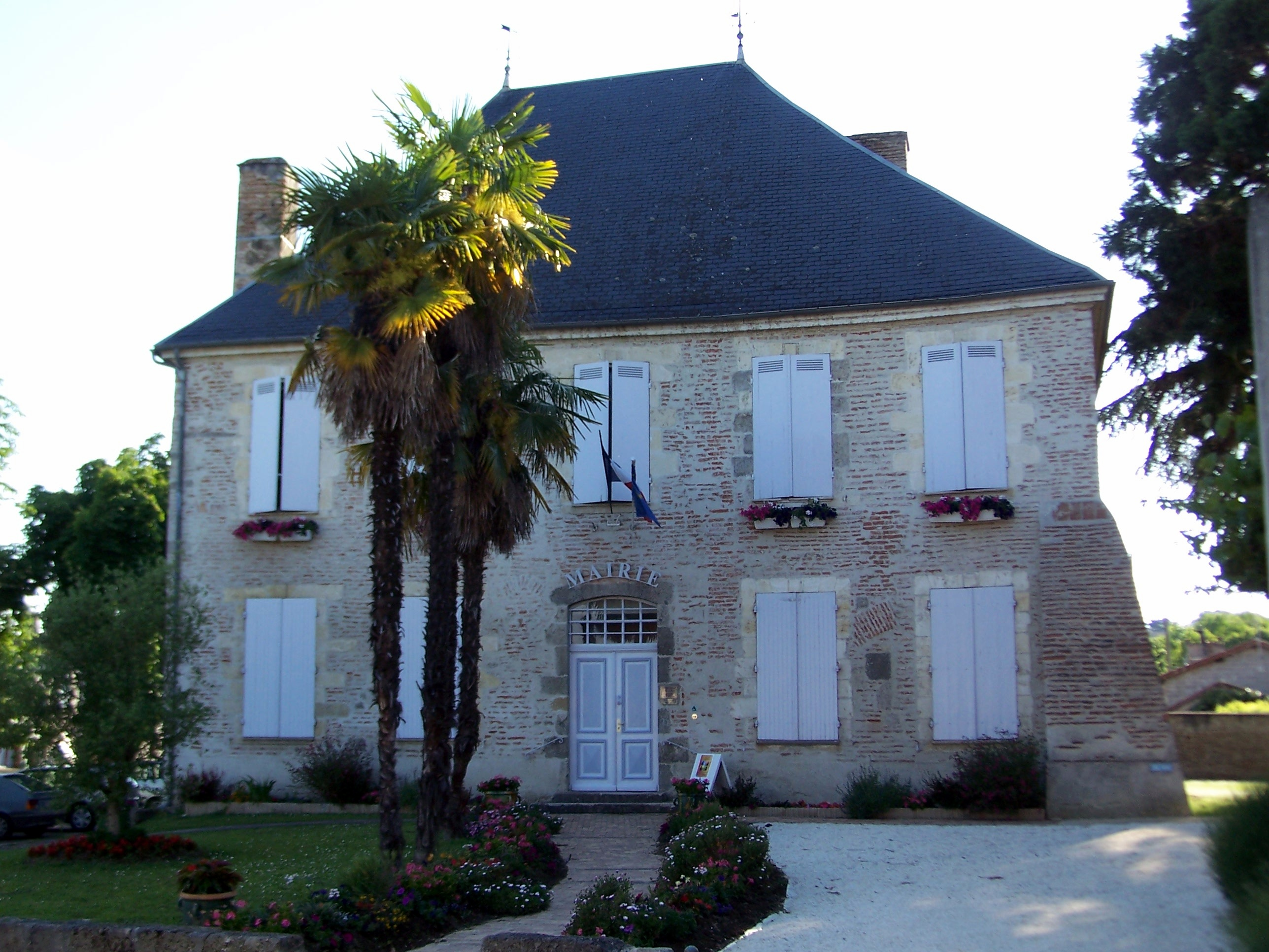 Church Saint-Vincent of Le Mas-d'Agenais (Lot-et-Garonne, France)